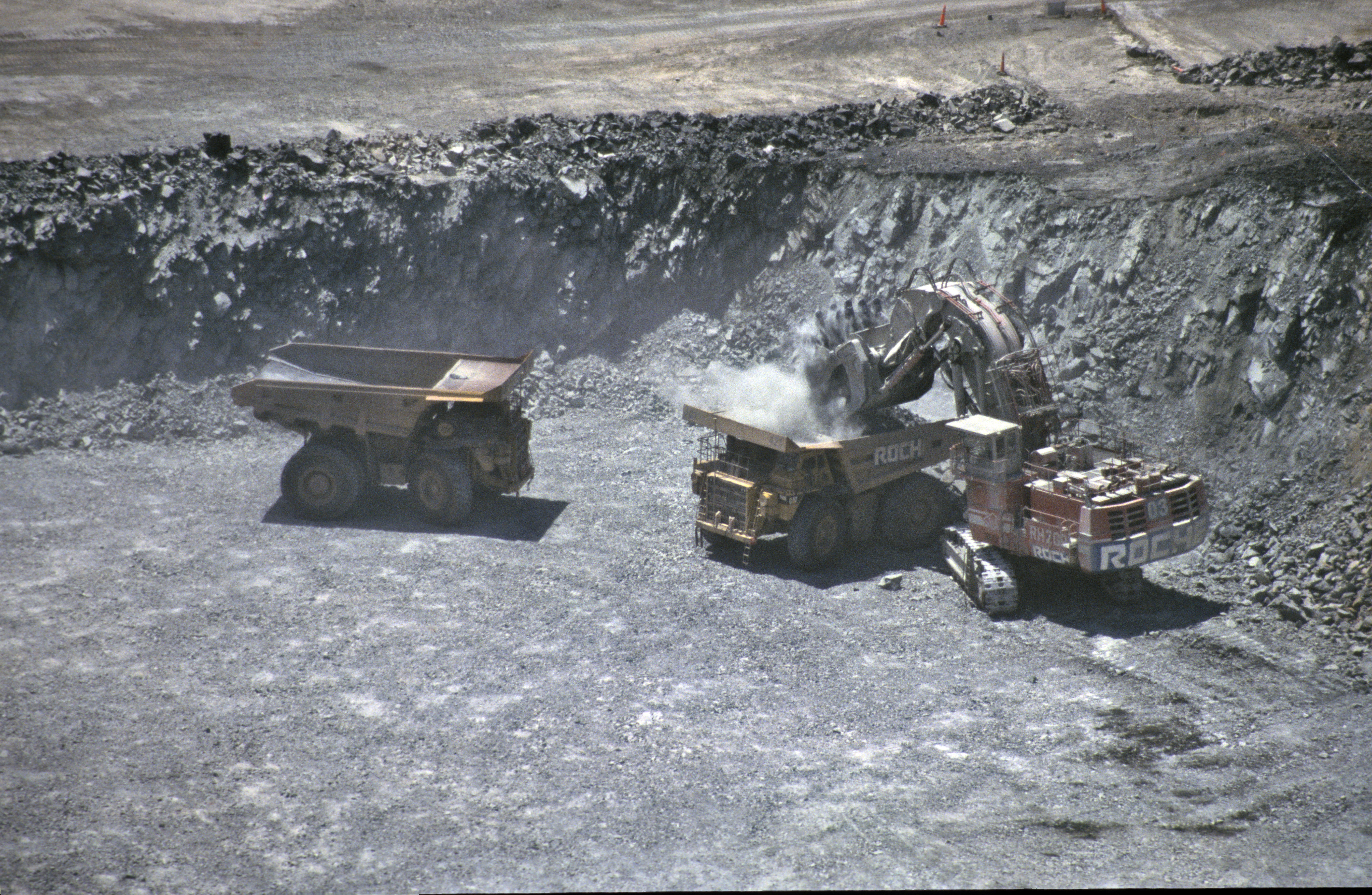 Super Pit Gold Mine, Kalgoorlie-Boulder 1